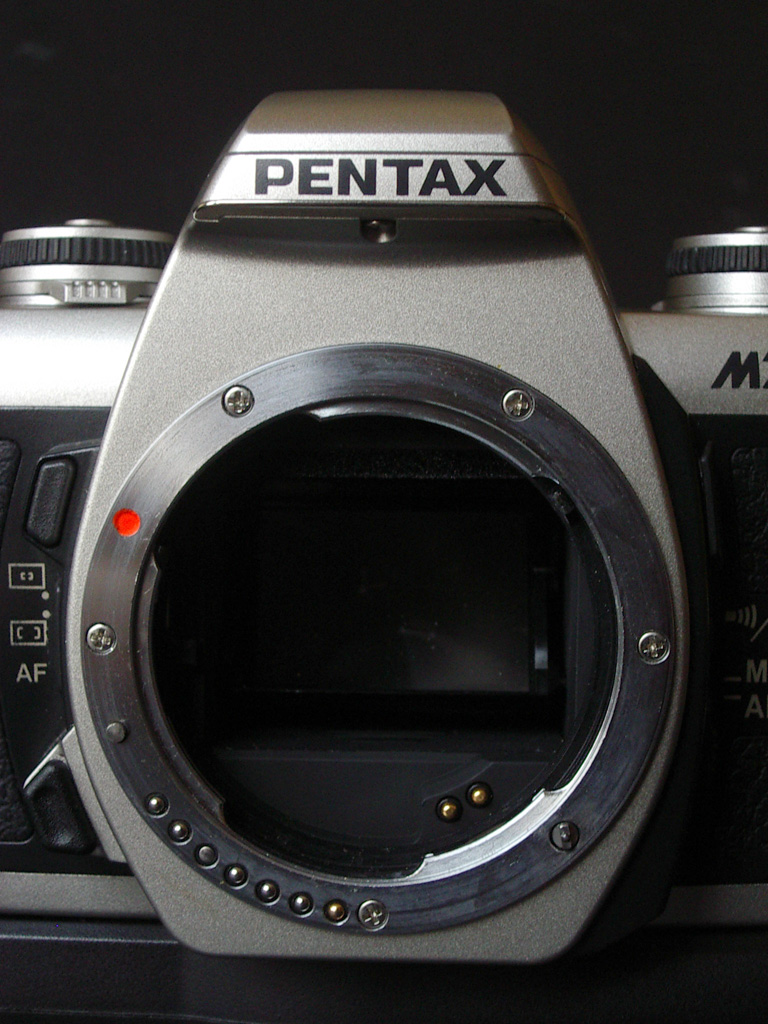 K-mount, KAF2 version (female). Pentax MZ-3 camera.